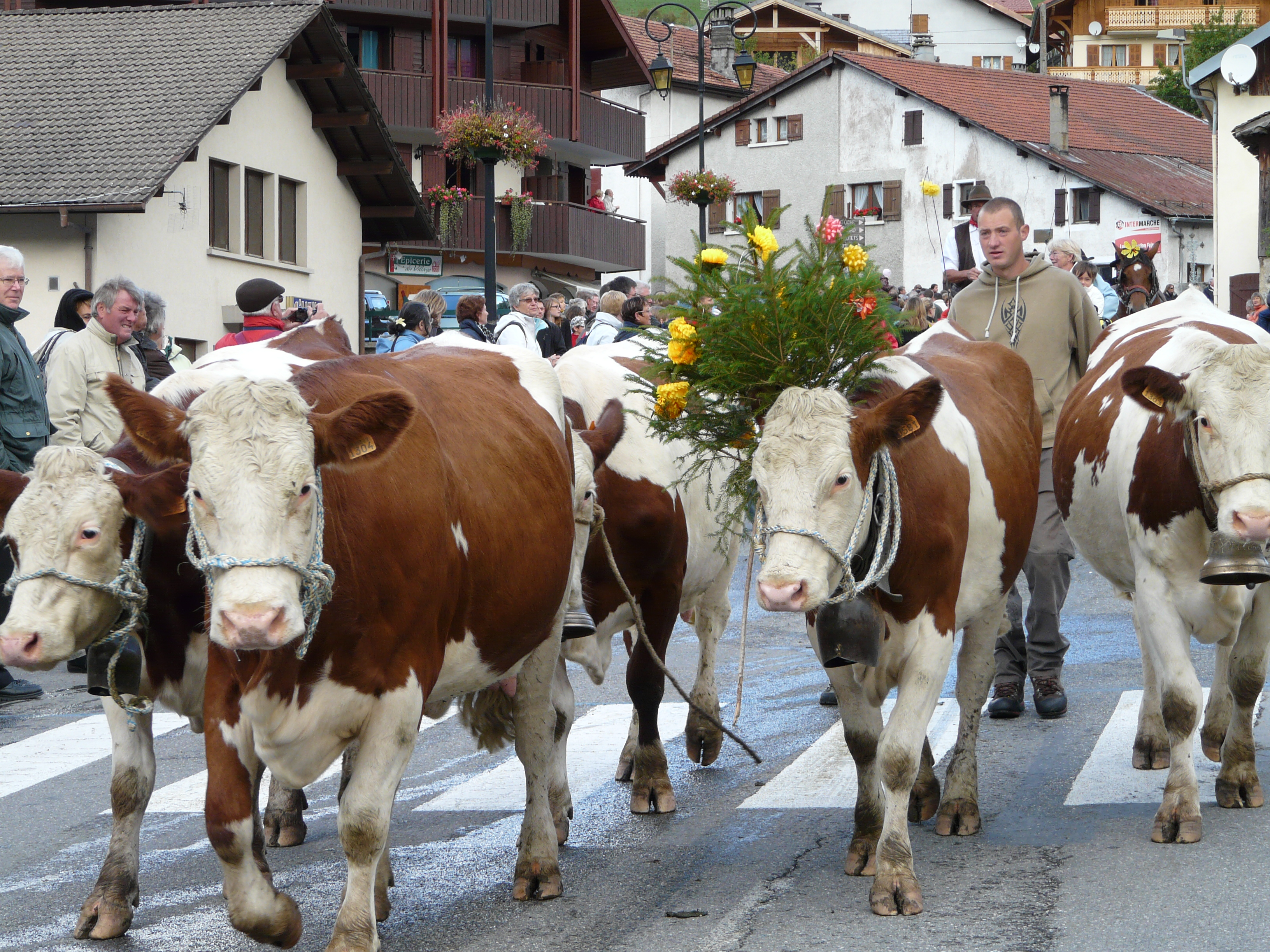 "Démontagnée" or descent from the alpine pastures for winter, Bernex (Haute-Savoie) late September